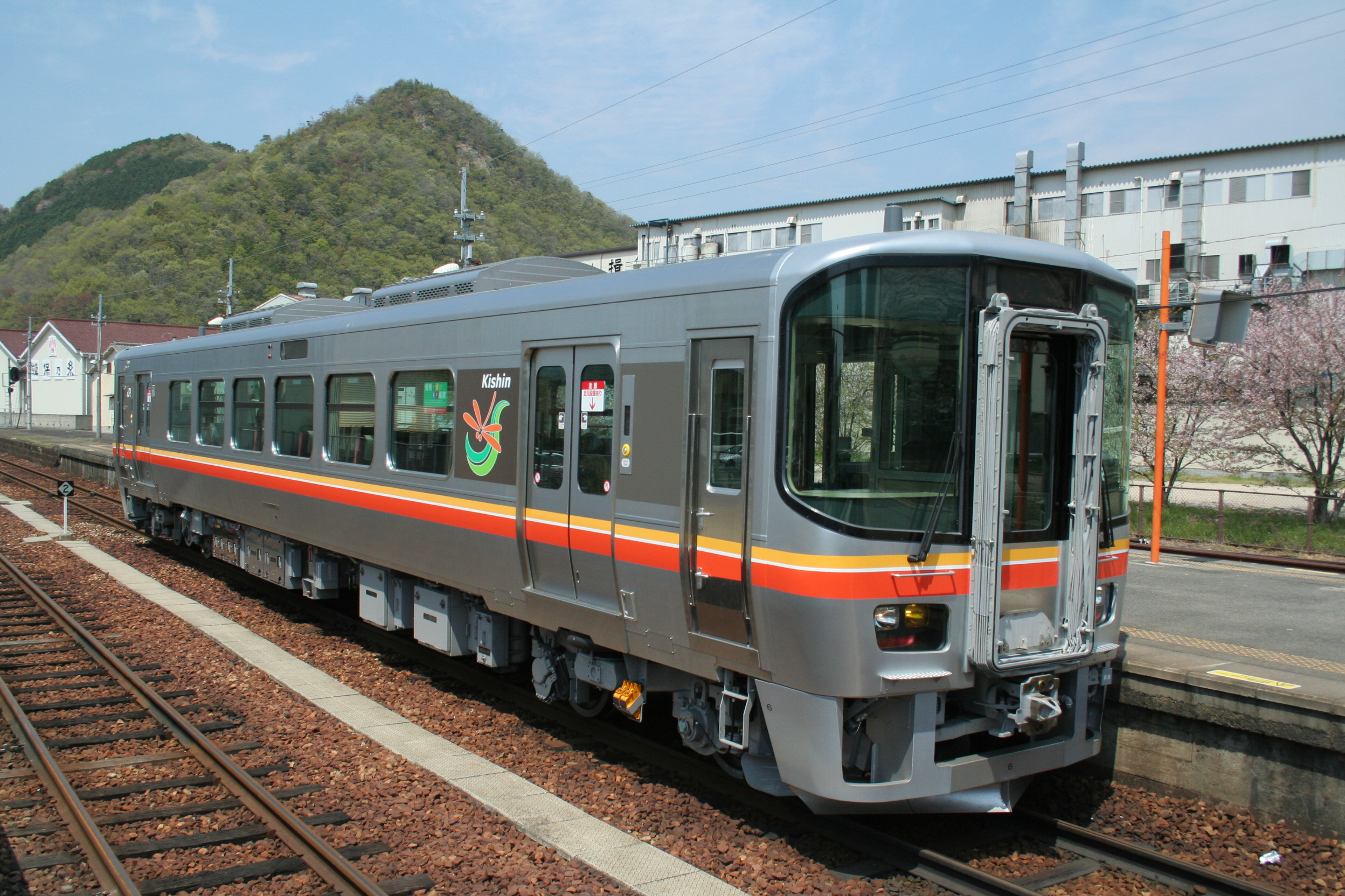 JR West KiHa 122 DMU car at Harima-Shingu Station